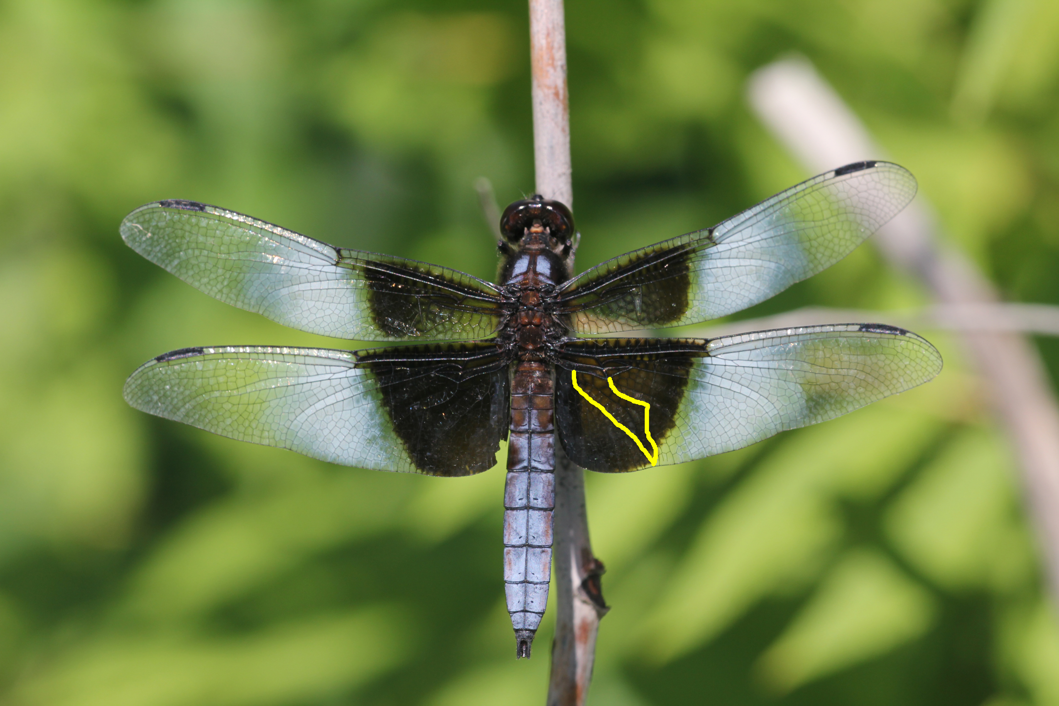 Footshape anal loop in Libellulidae